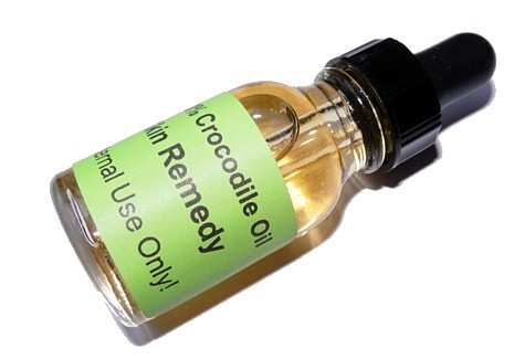 Crocodile Oil for Adult Only